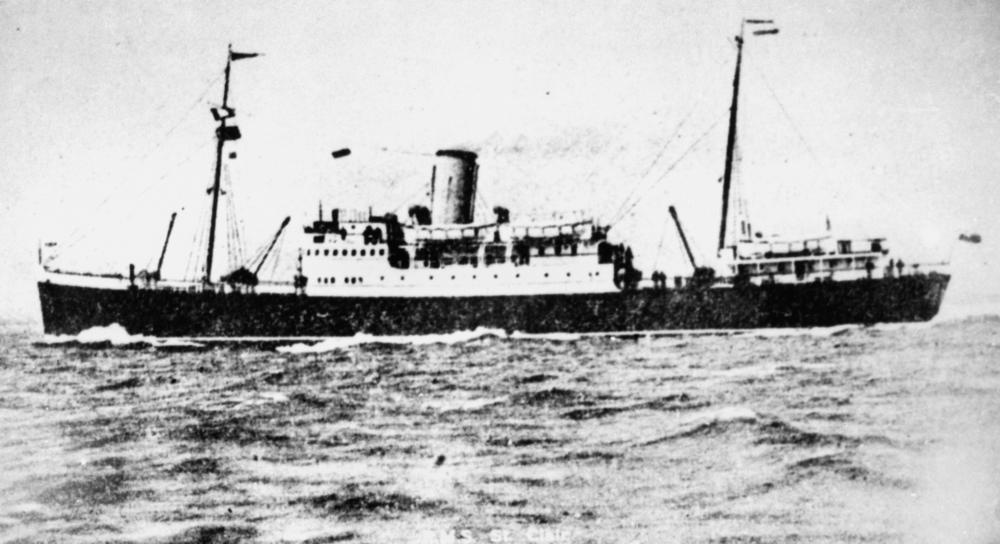 St Claire (ship) St Claire saw service in Iceland and also served as a convoy rescue ship. (Description supplied with photograph.).